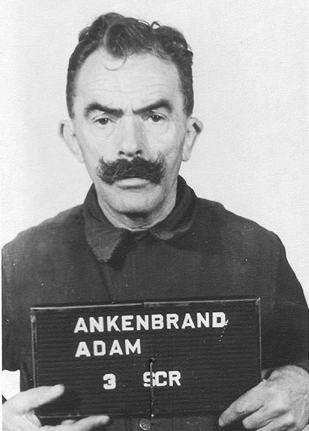 Adam Ankenbrand, SS-Unterscharführer and guard in the concentration camps of Gusen-Mauthausen and Buchenwald